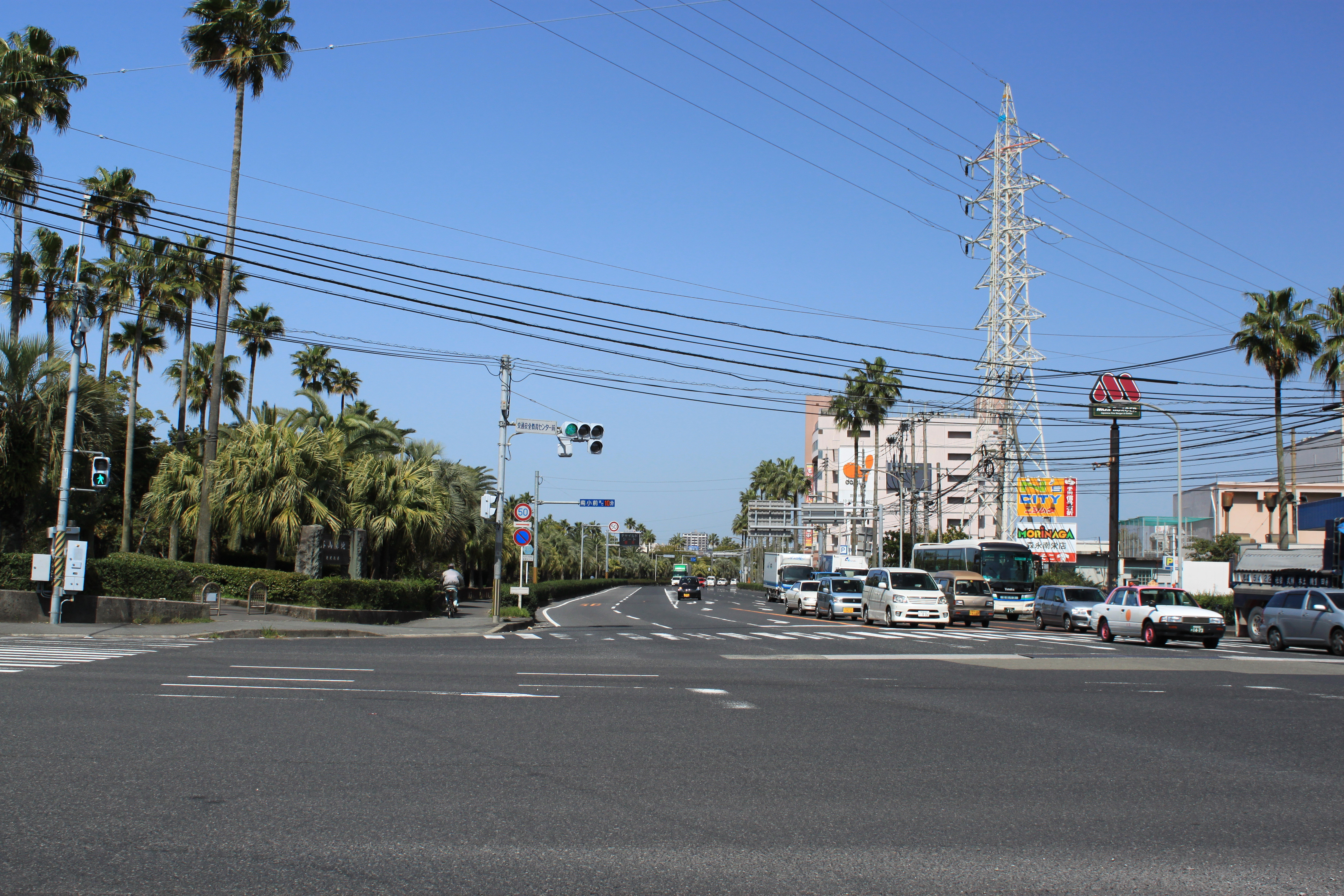 The Kotsu-anzen Kyoiku Senta (Traffic Safety Education Centre) Intersection, where the Kagoshima Prefectural Road Route 217 ends